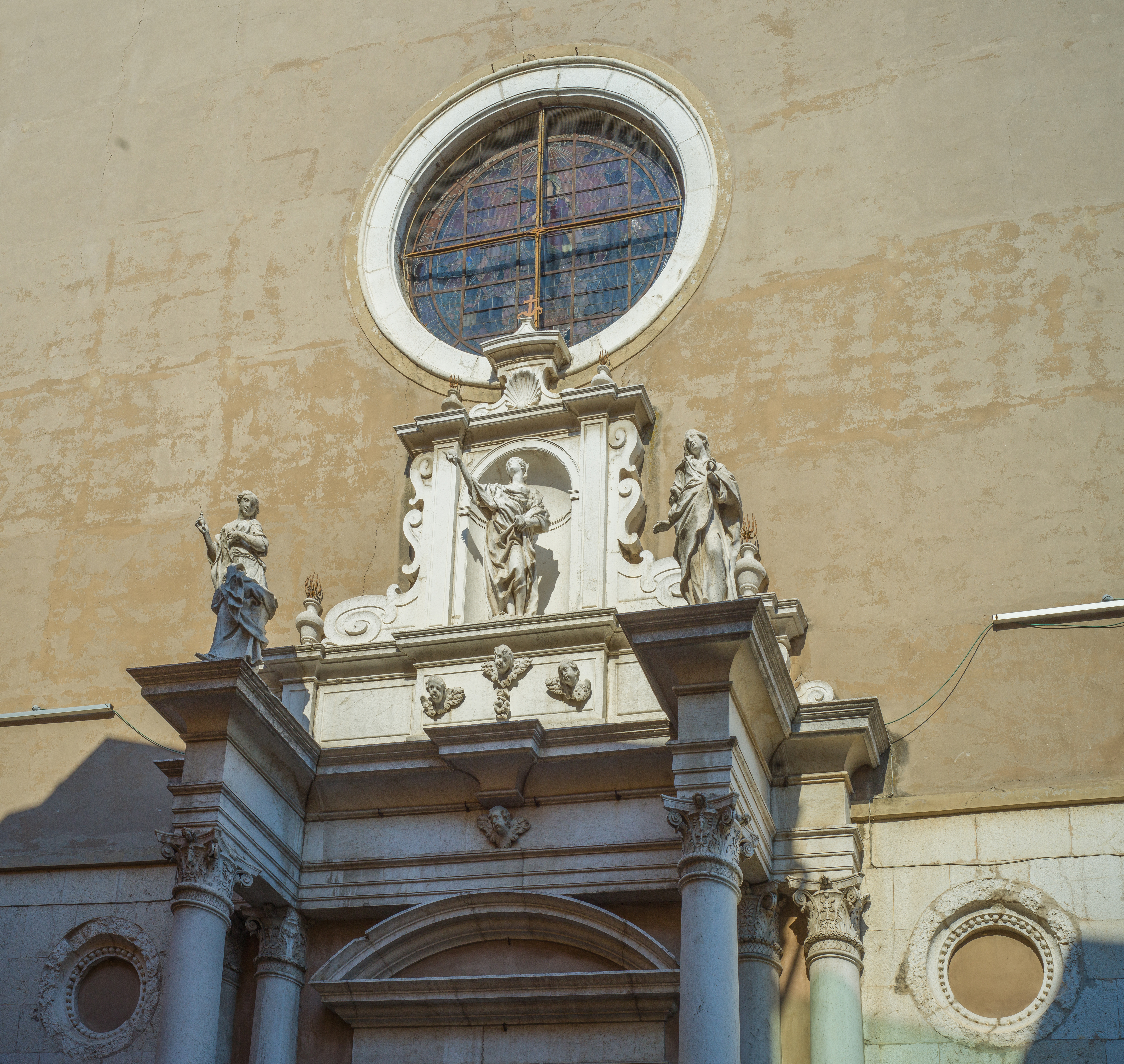 Portal over the Sant'Agata church in Brescia- Statues by Antonio Calegari.